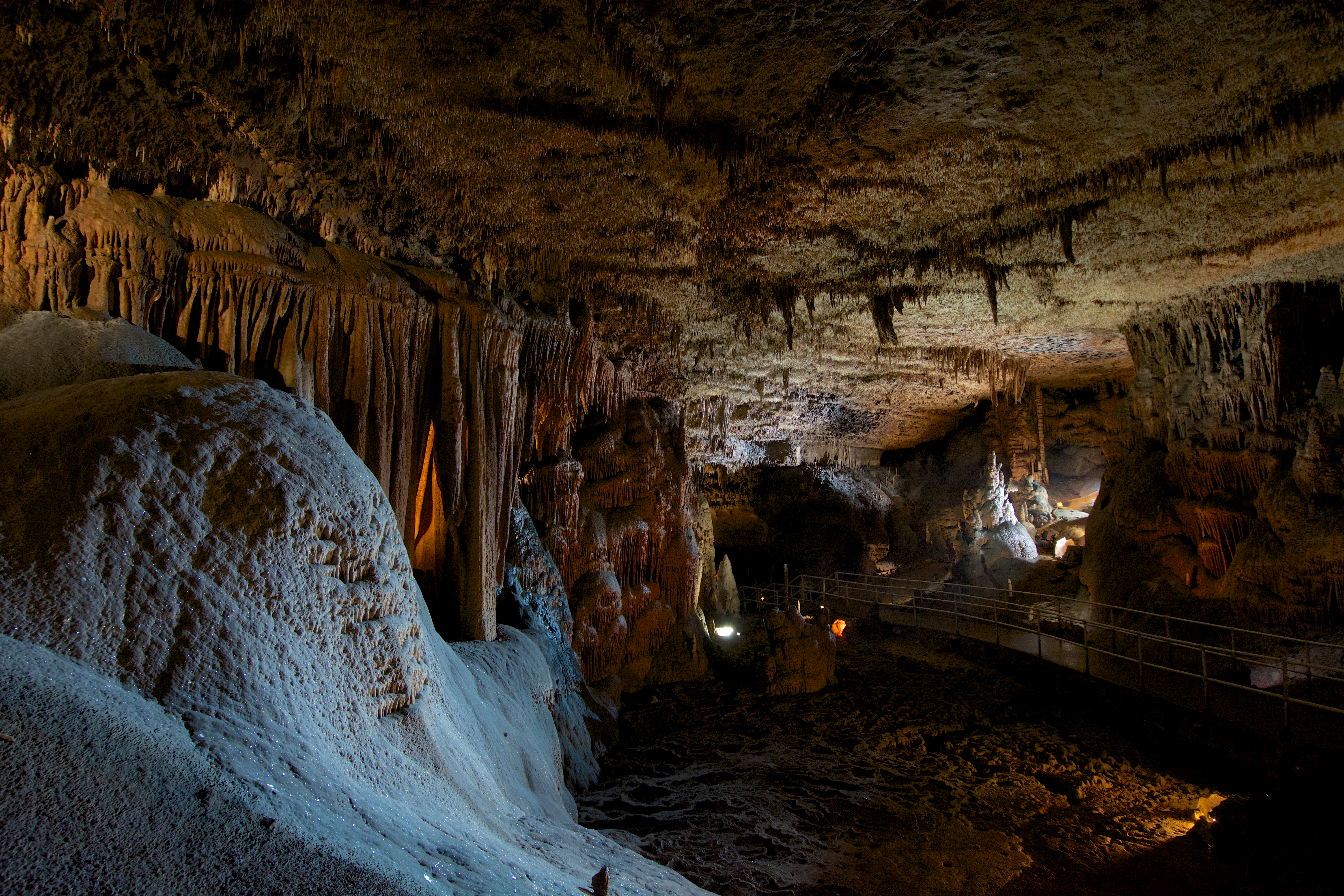 Near the end of the Discovery Trail at Blanchard Springs Caverns in the Ozark-St. Francis National Forest, Stone County, Arkansas